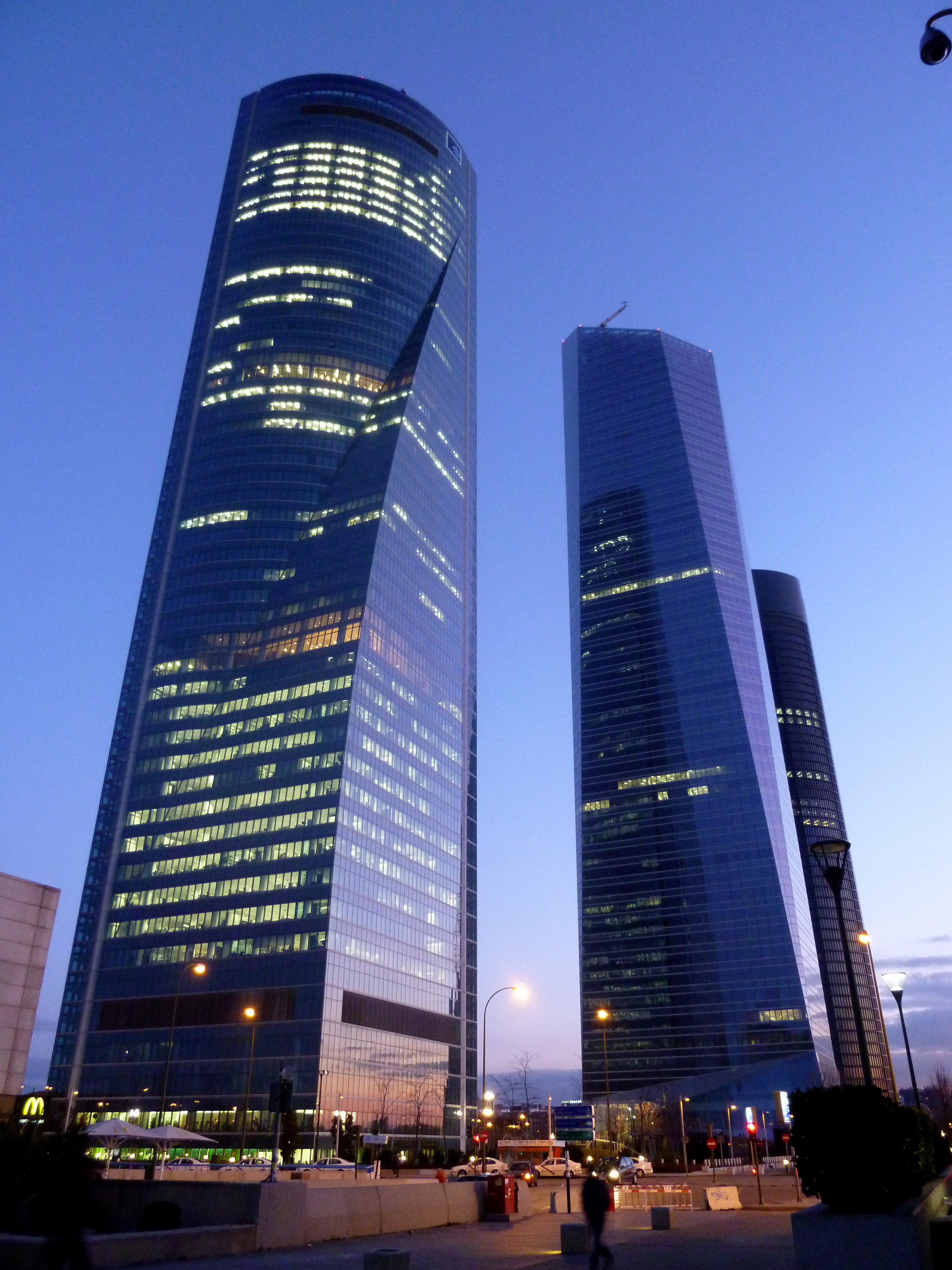 View of Cuatro Torres Business Area in Madrid (Spain). From left to right: Torre Espacio, Torre de Cristal and Torre Sacyr Vallehermoso.